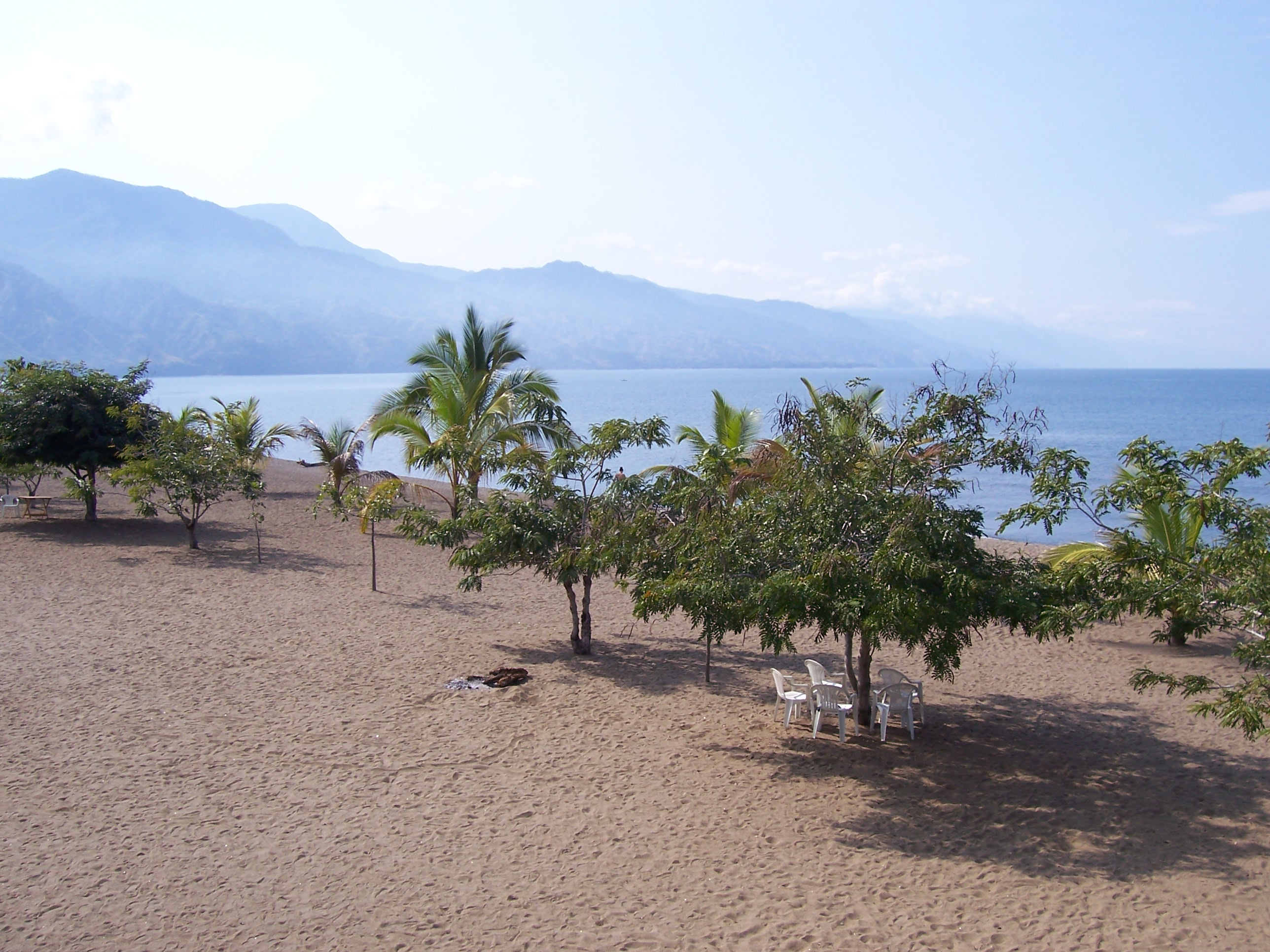 Matema Beach in Mbeya, Tanzania.